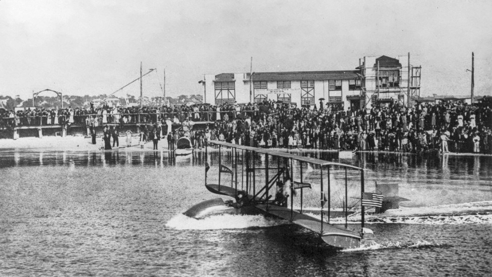 A Benoist XIV flying boat on Tampa Bay begins its takeoff run for the first flight by a scheduled airline in history, flying for the St. Petersburg-Tampa Airboat Line, which operates between St. Petersburg and Tampa, Florida.